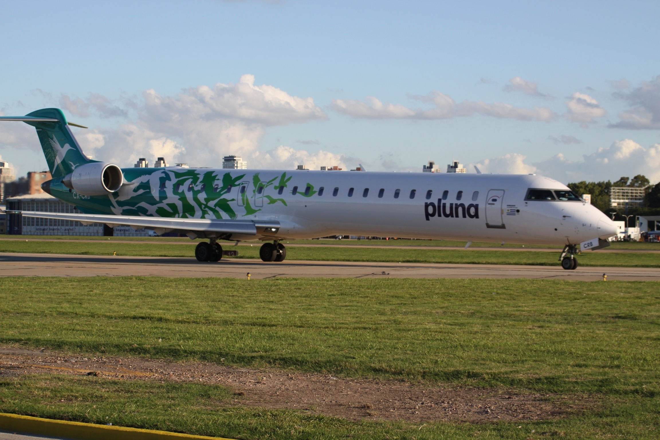 At Buenos Aires Aeroparque